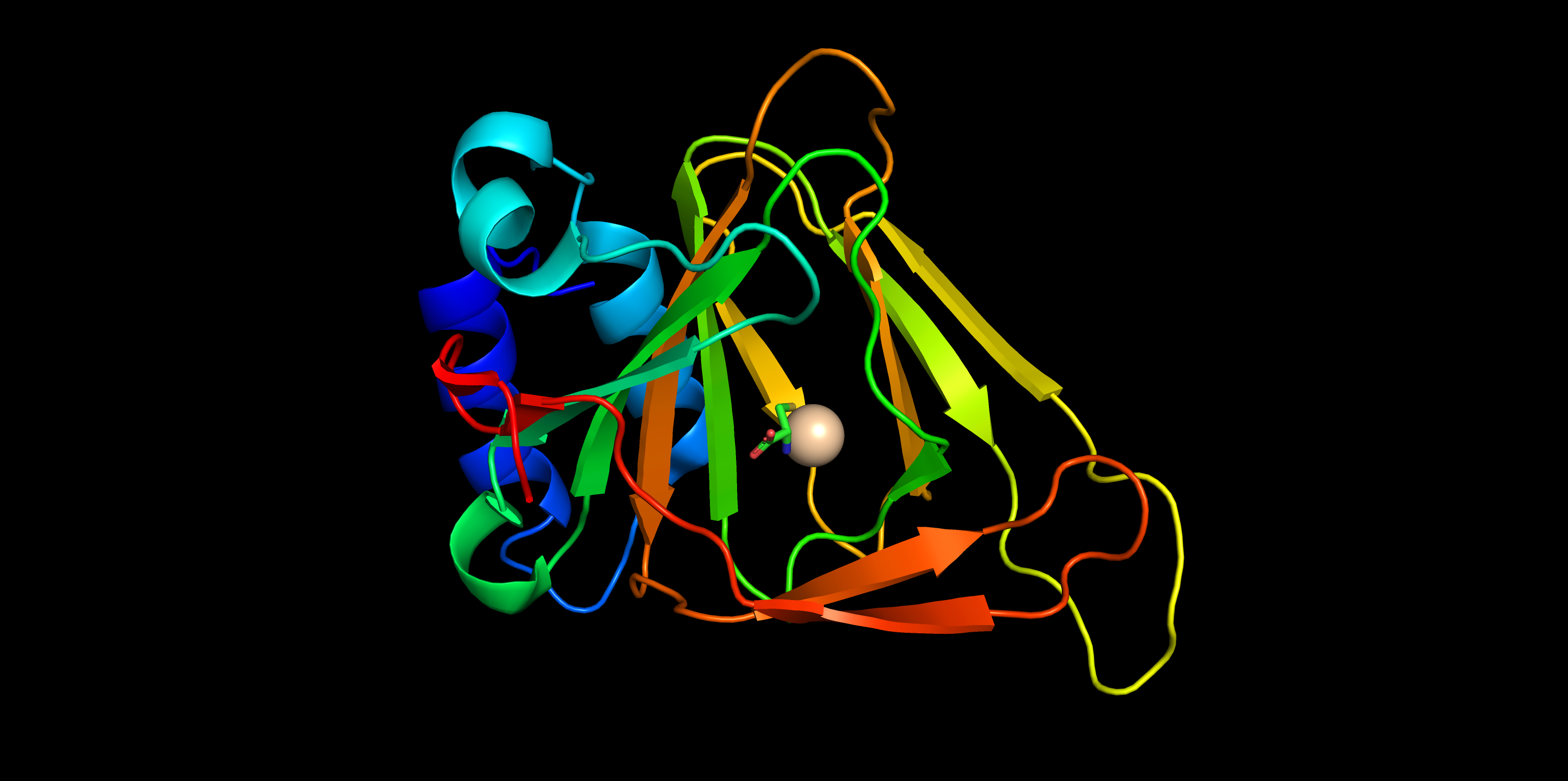 Protein structure of human cysteine dioxygenase enzyme, drawn from PDB 2IC1. Iron ion and cysteine substrate shown.